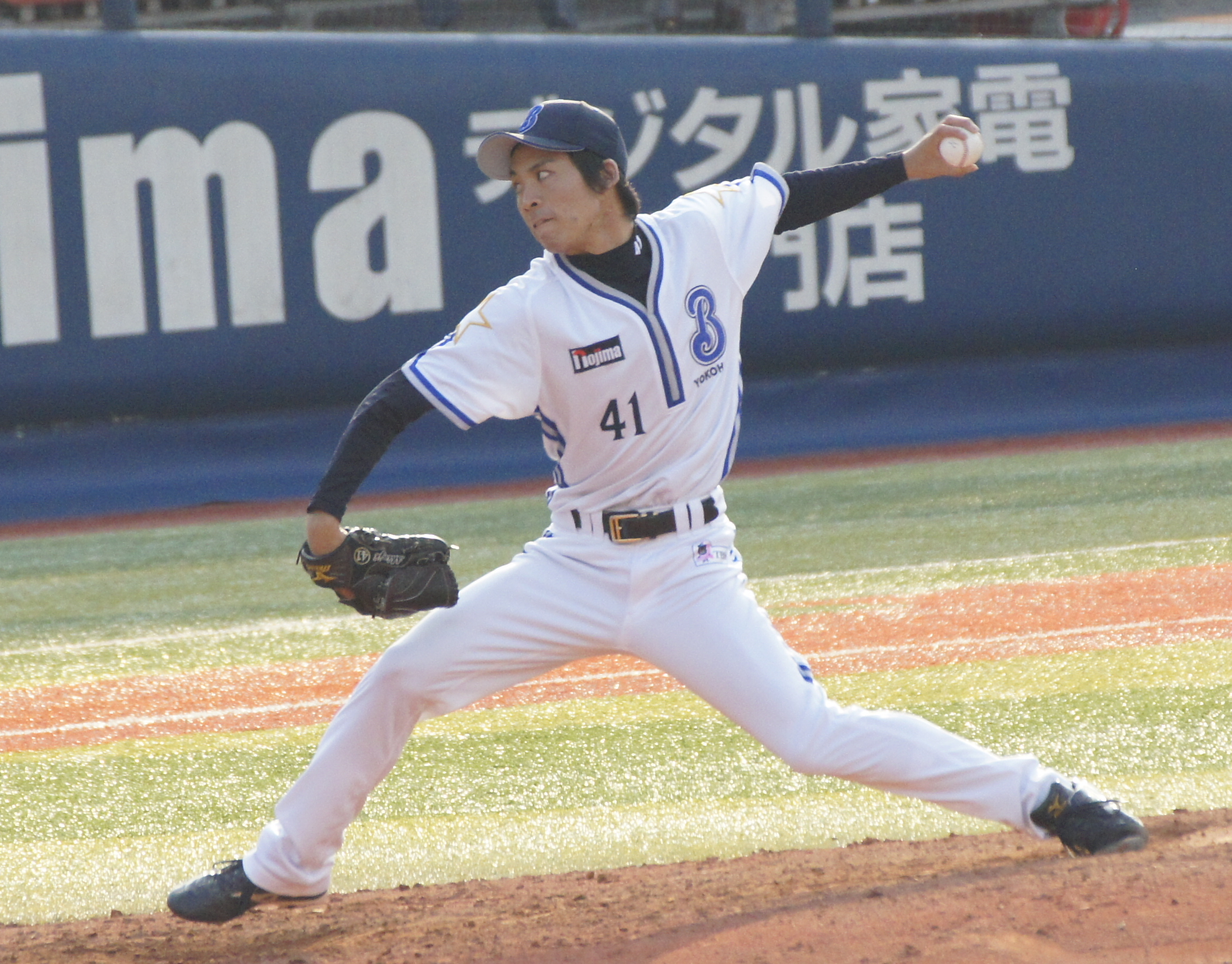 Shinji Ohara, pitcher of the Yokohama BayStars, at Yokohama Stadium.